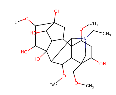 amorphous, bitter, non-poisonous alkaloid, derived from the decomposition of aconitine